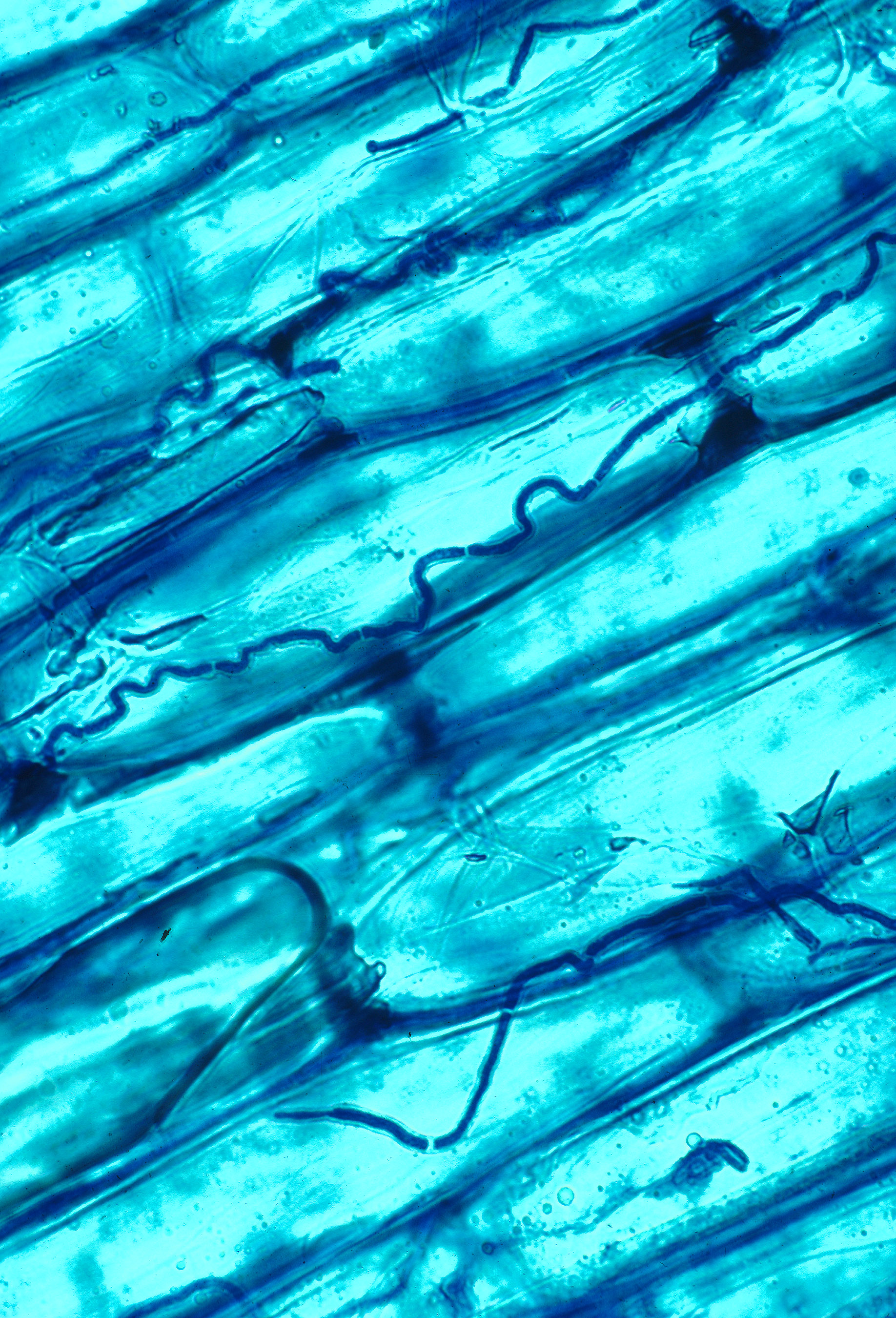 Blue-stained serpentine Neotyphodium coenophialum mycelia inhabiting the intercellular spaces of tall fescue leaf sheath tissue. Magnified 400x.